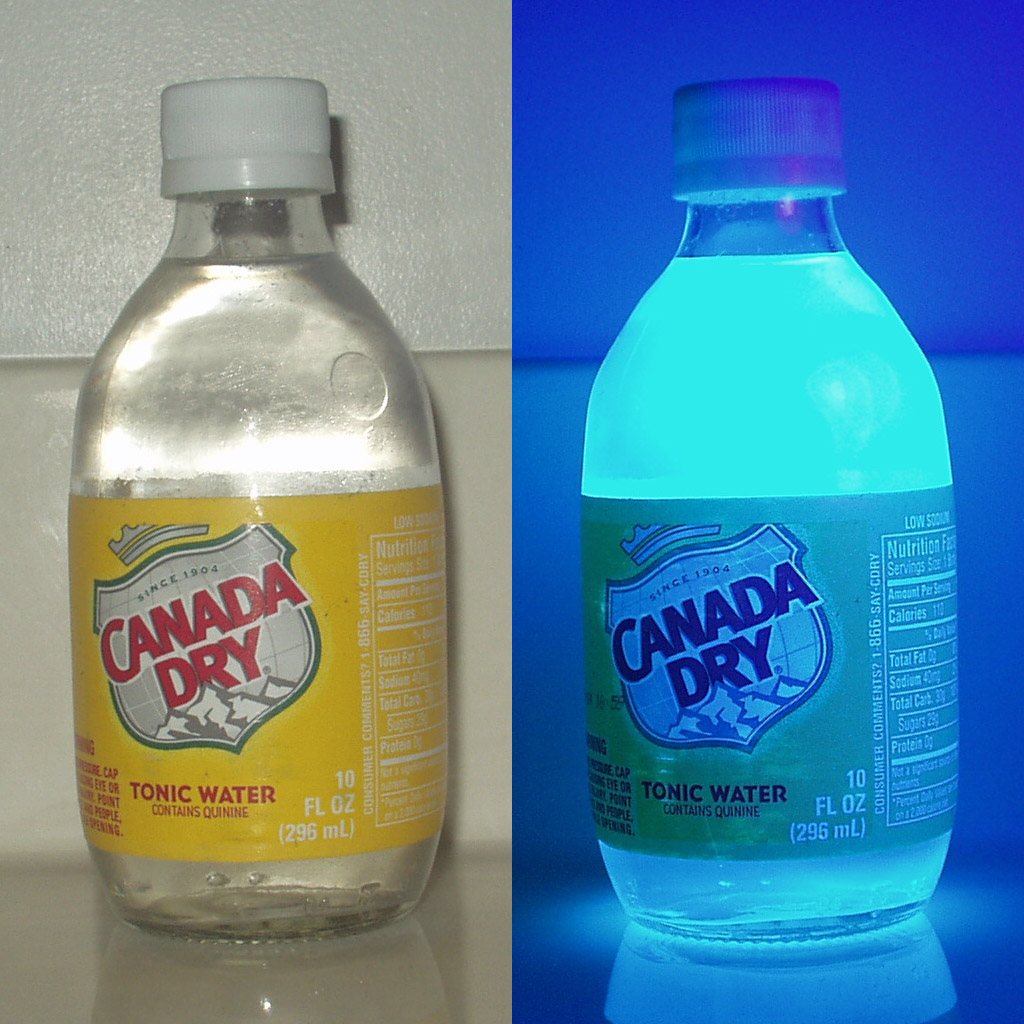 Bottle of tonic water, under regular and UV light (shows fluorescence of quinine).